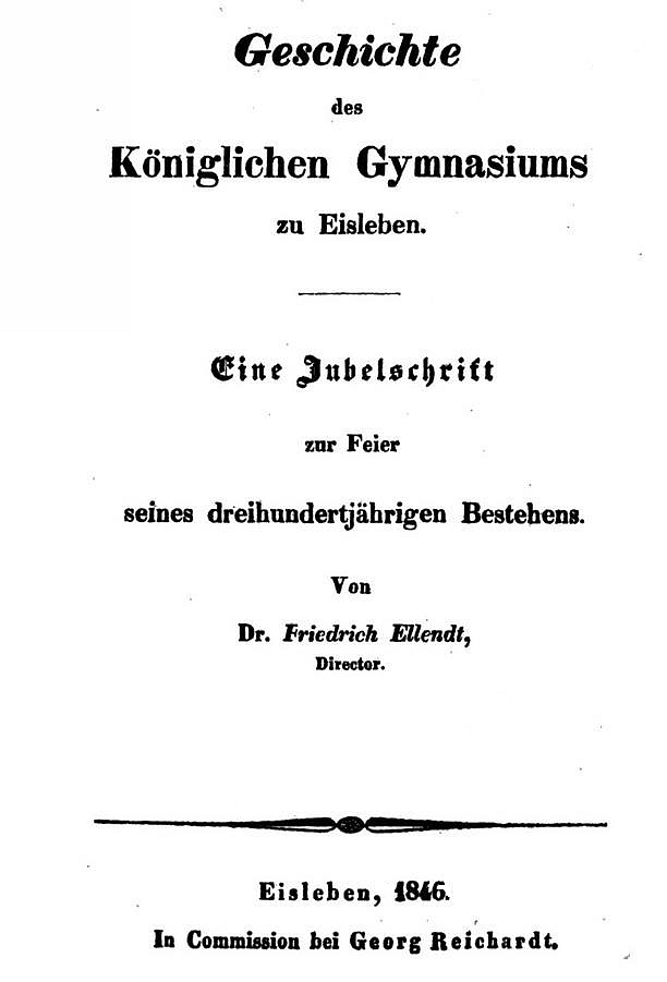 Title page of the commemoration "Geschichte des Königlichen Gymnasiums zu Eisleben: Eine Jubelschrift zur Feier seines dreihundertjährigen Bestehens". Publication to celebrate the institution's three hundredth anniversary 1846.